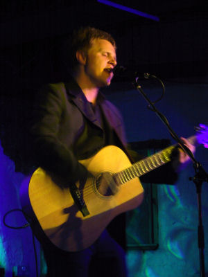 David Mead in concert.